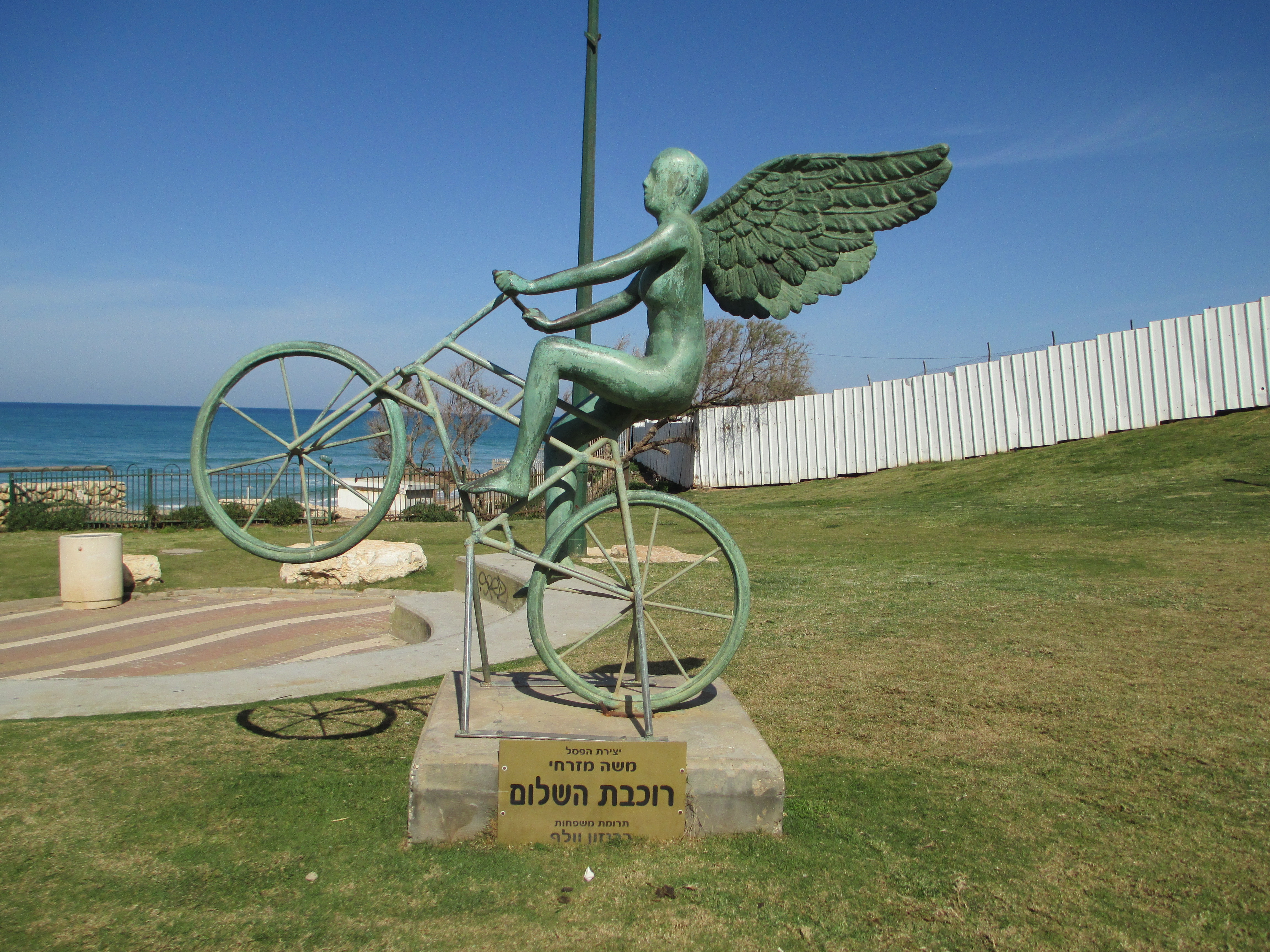 Peace Driver sculpture in Herzliya